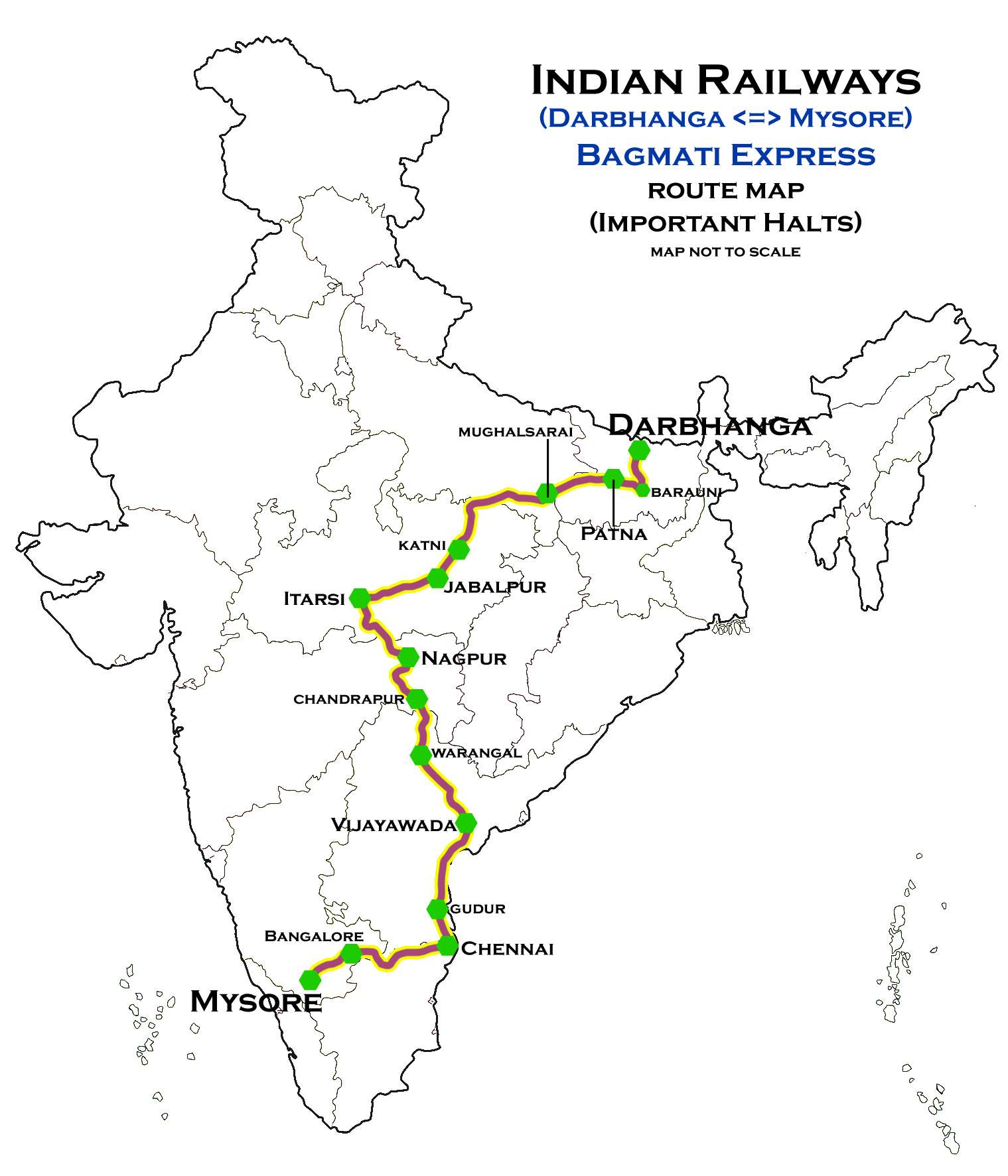 Bagmati Express (Darbhanga - Mysore) Route map